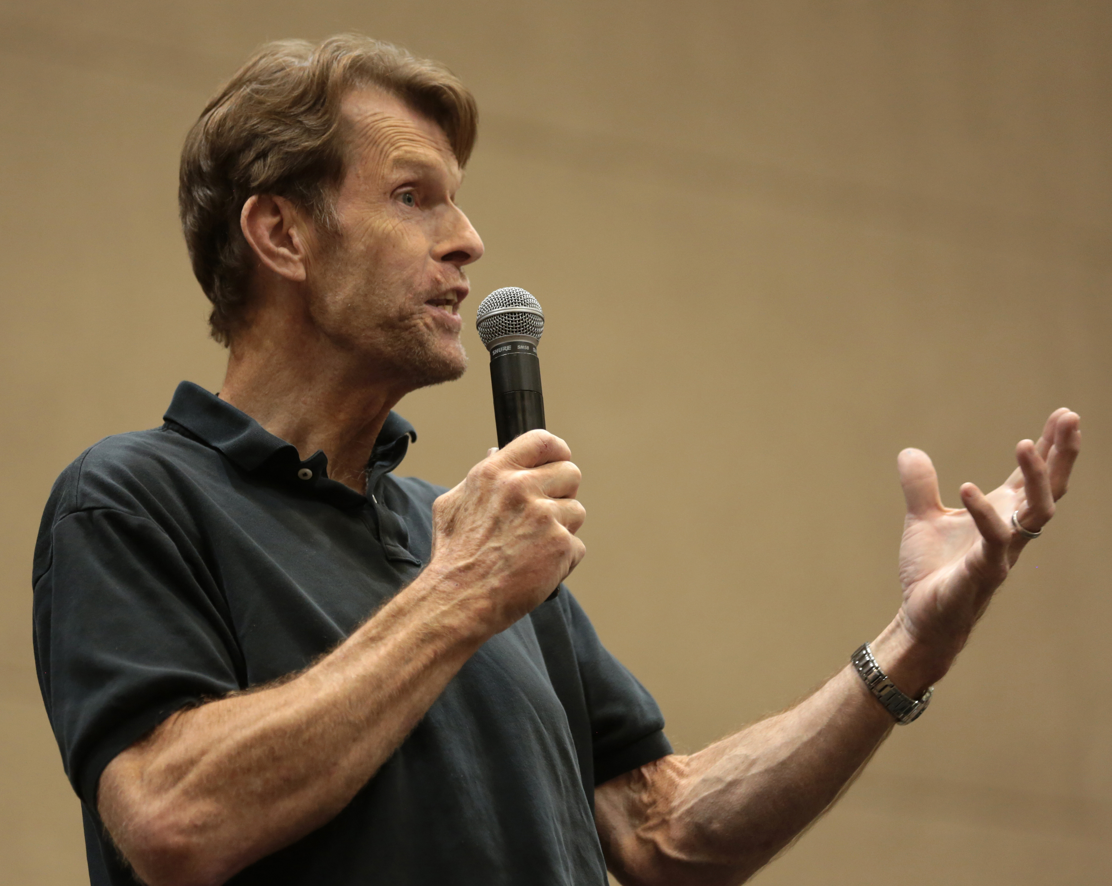 Kevin Conroy speaking at the 2017 Phoenix Comicon in Phoenix, Arizona.